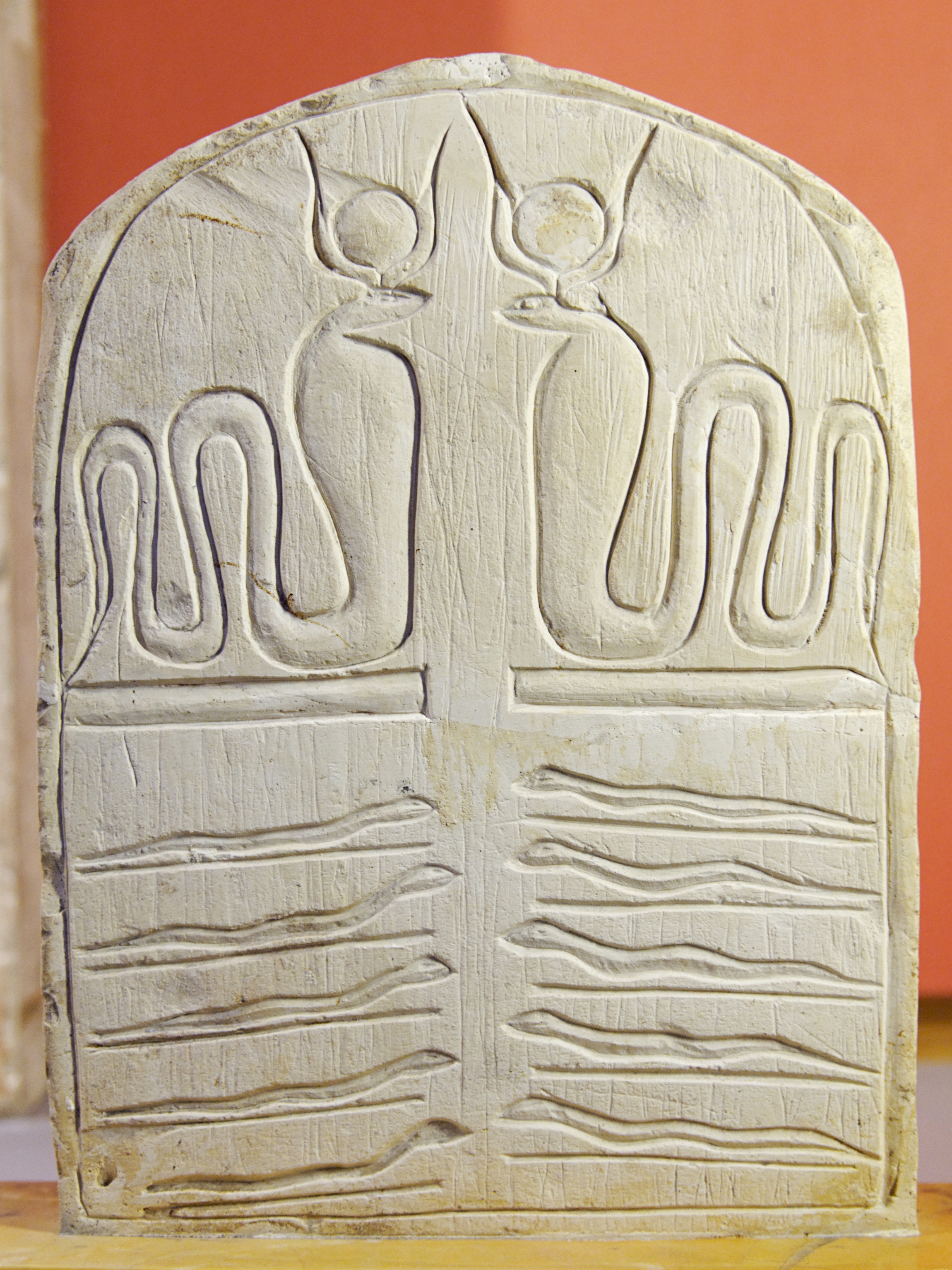 Stele representing the cobra-goddess (upper tier) and snakes (lower tier). Limestone, New Kingdom.